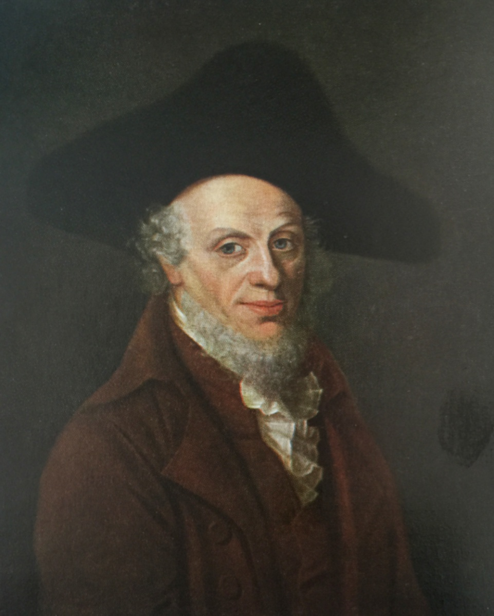 Moses Melchior, Jewish-Danish merchant and company founder